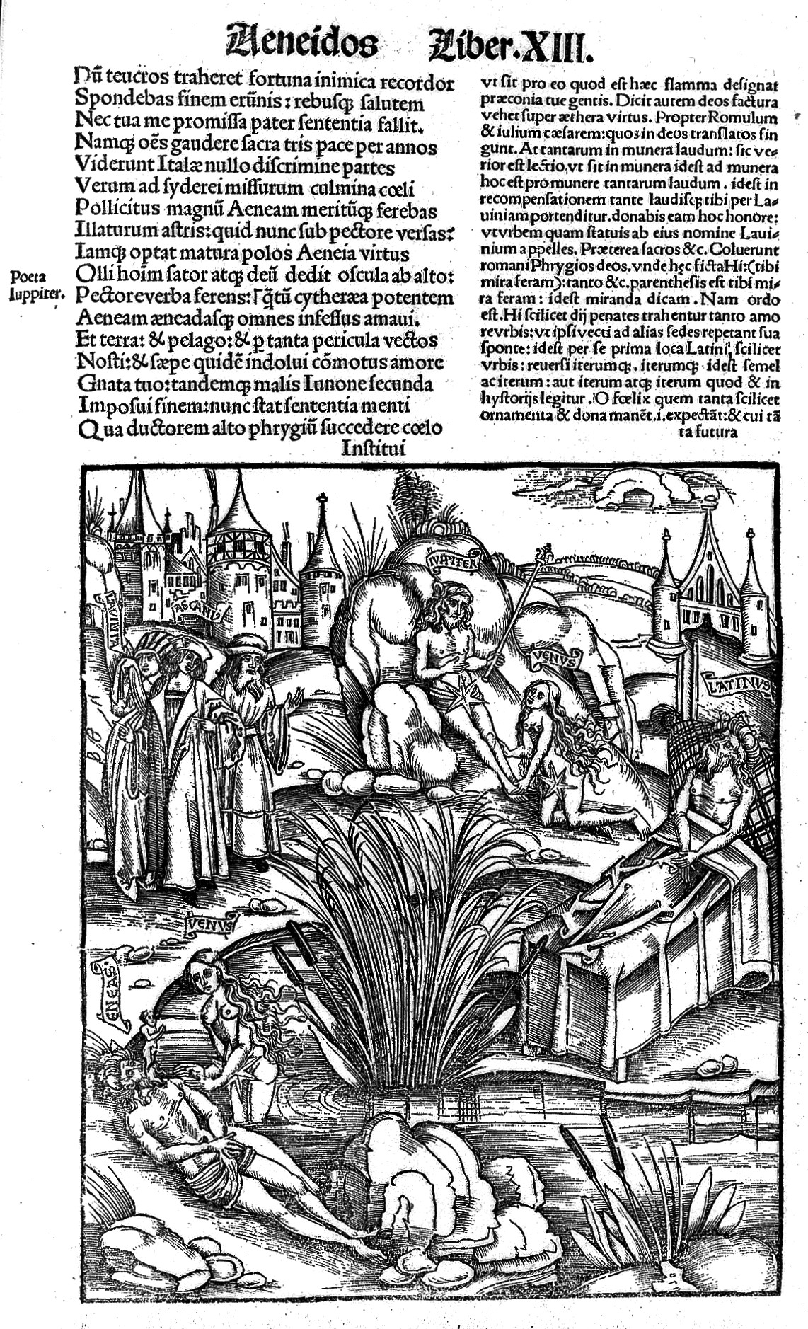 Apotheosis of Aeneas, at the end of Mapheus Vegius "Aeneidos liber xiii", added to Virgil's "Aeneid". Wellcome Images Keywords: aeneid